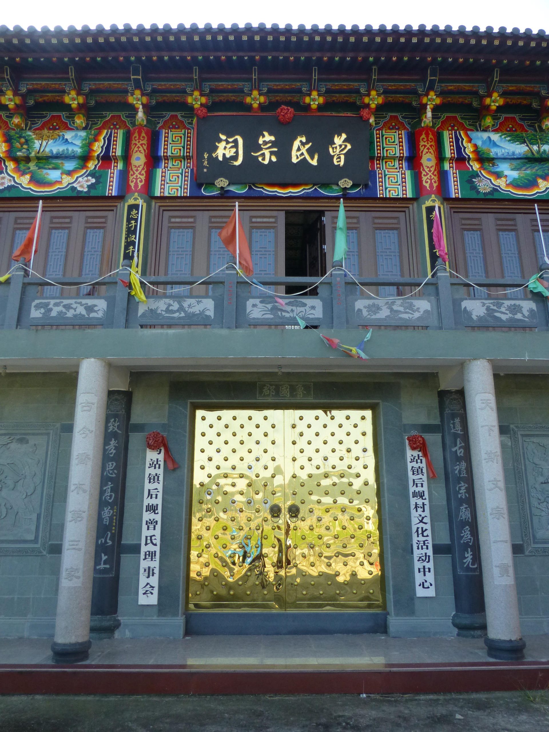 Zeng family ancestral temple and Houxian Village culture center. Mazhan Town (Cangnan County, Zhejiang, China.)